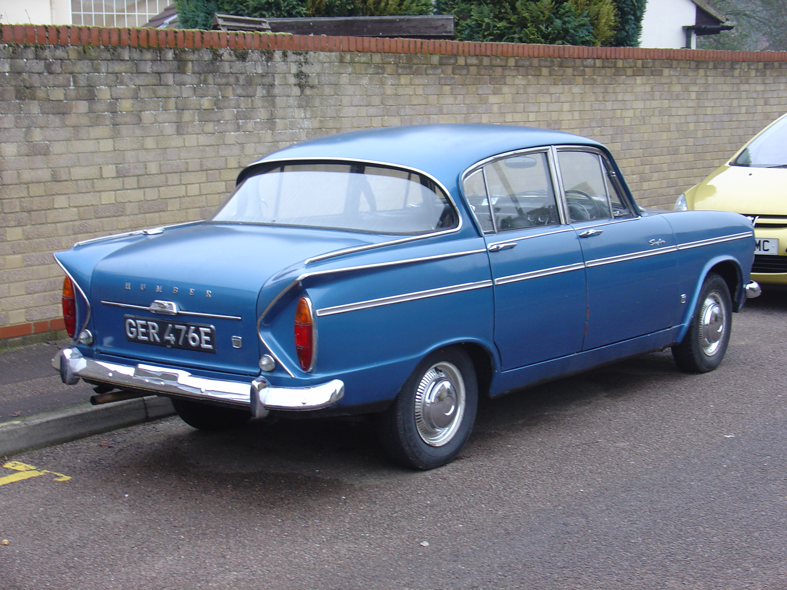 1967-ish Humber Sceptre. Quite a nice car in its day. A school friend of mine had one (in 1976). I was about 10 when this one was built :-)